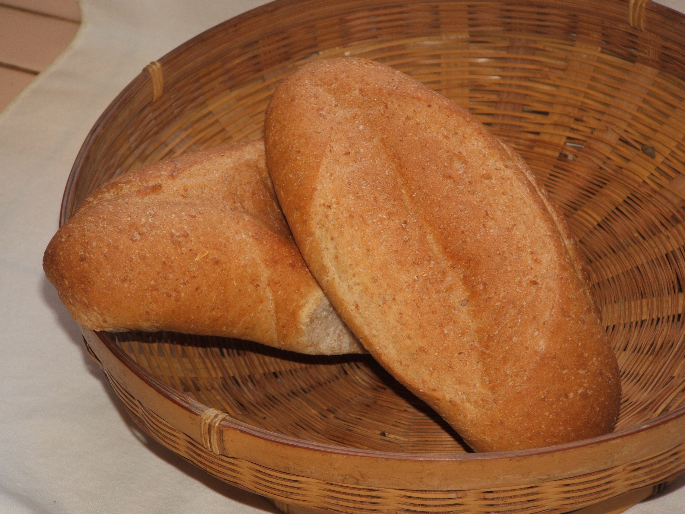 Bolillos rolls